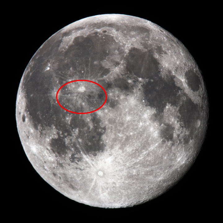 The Location of Mare Insularum, One of the Lunar Geographical Features.